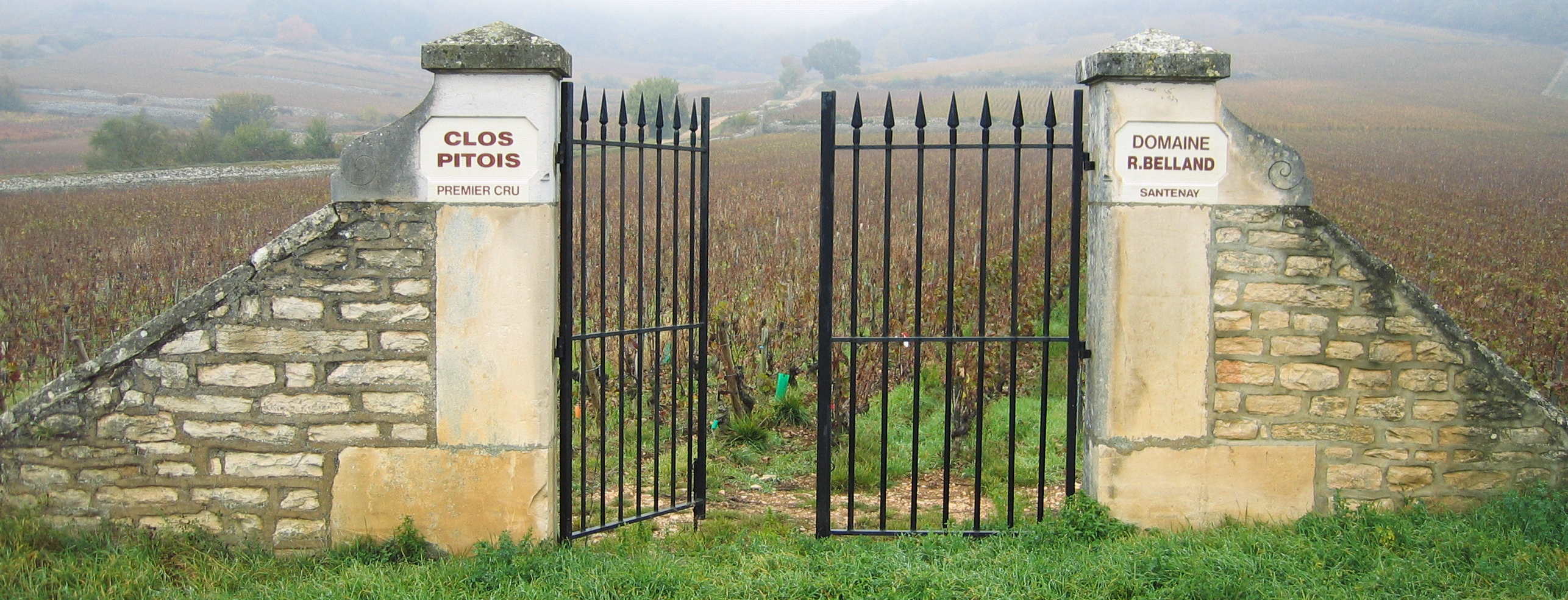 Clos Pitois, a premier cru vineyard in the southern part of Chassagne-Montrachet (Burgundy). This part of the vineyard owned by a domaine located in Santenay.